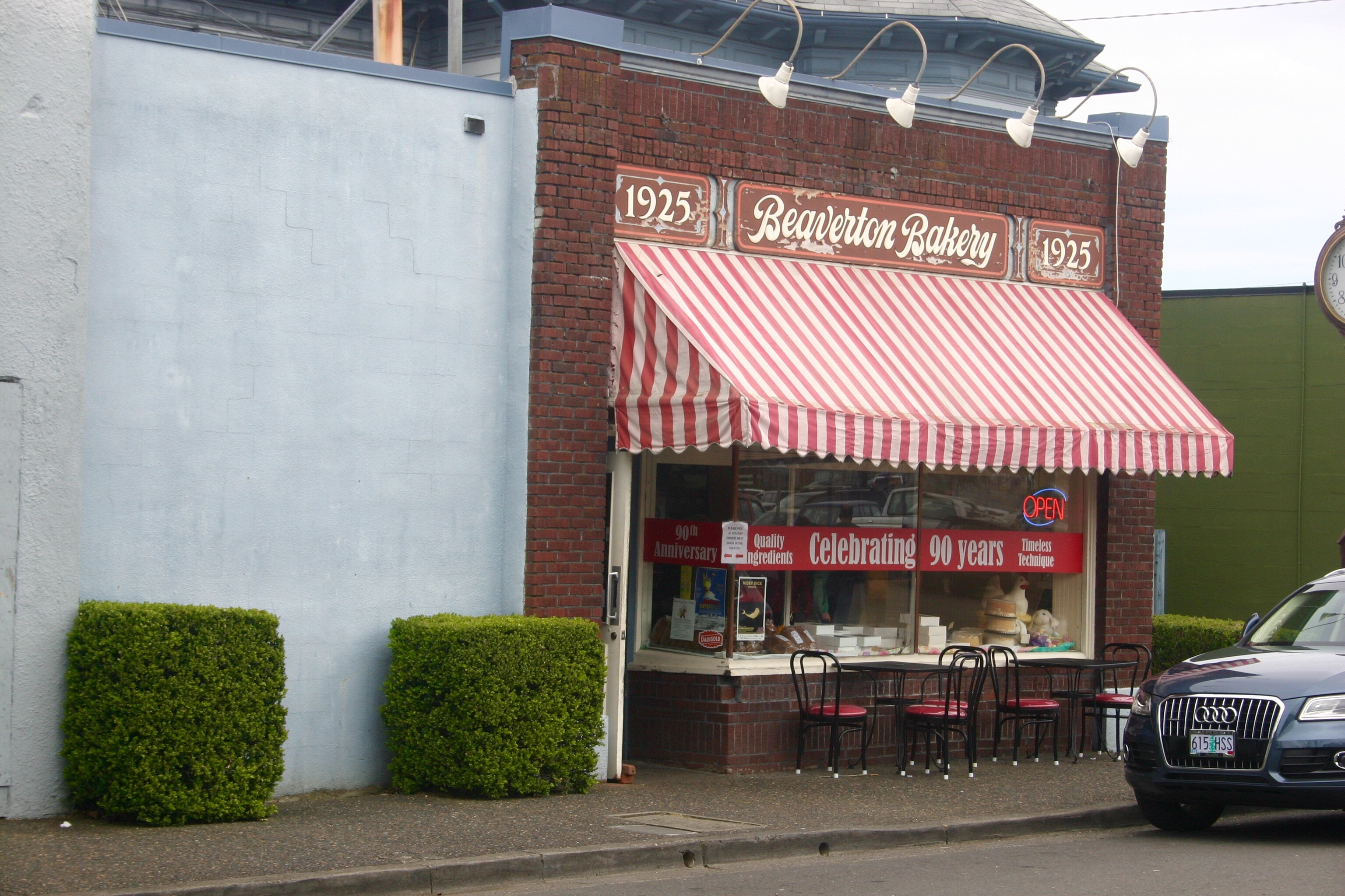 Old Town Beaverton-3